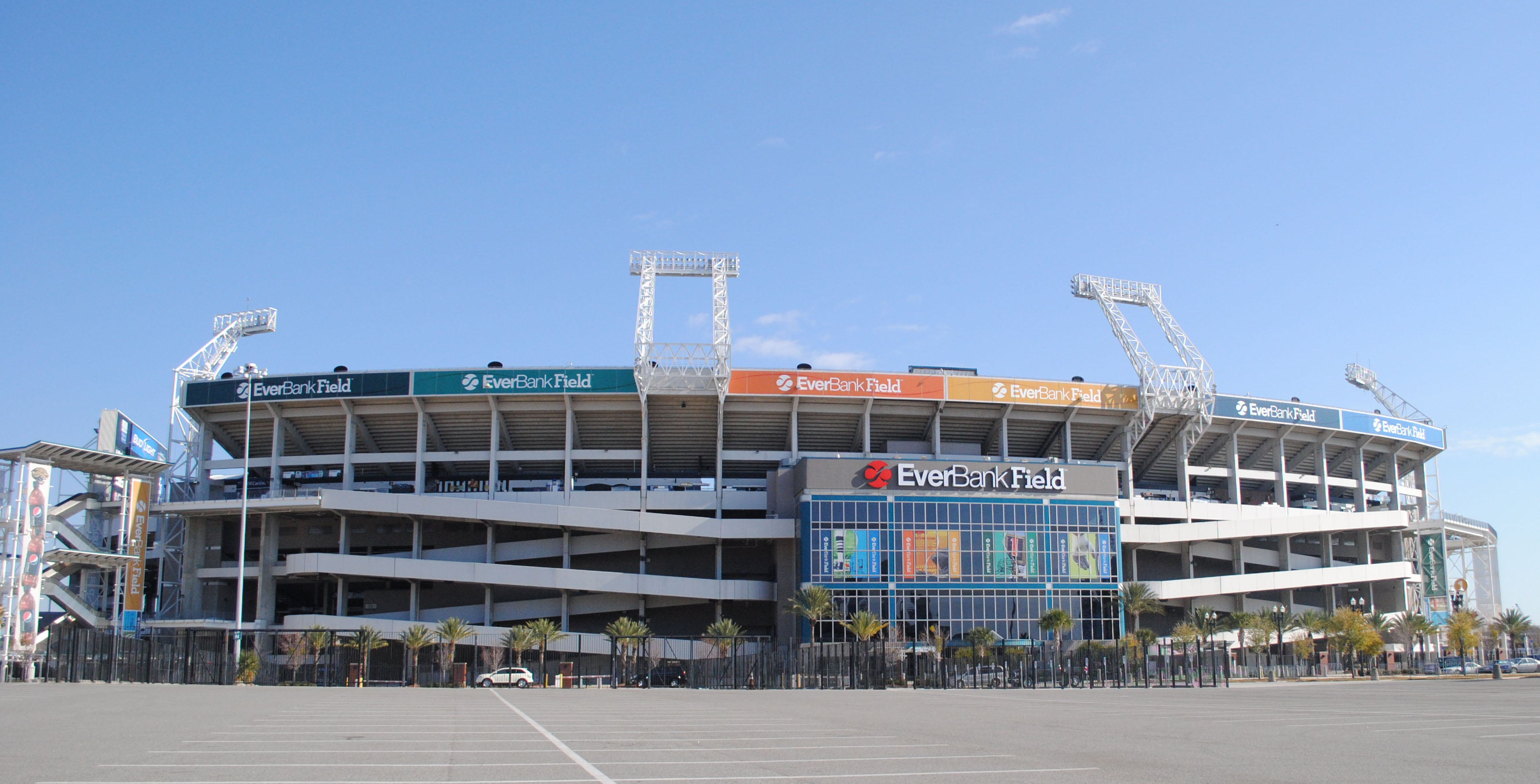 A photo of EverBank Field in Jacksonville, Florida.